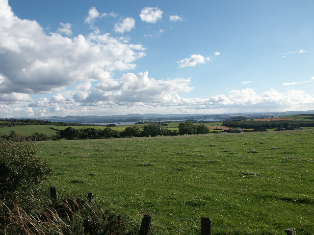 Pastures Old. Farm fields rolling down to sea level about three or four miles away. Looking toward the Bridges. If you look closely, the Superfast Ferry is on its way from Rosyth to Zeebrugge once more.